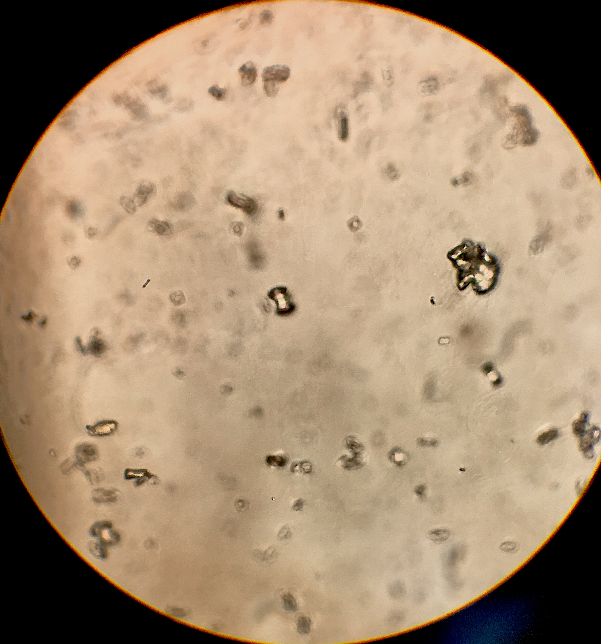 This photo was taken with an Iphone X and it represents a urine slide under the microscope; in the middle of the picture there are some uric acid crystals.